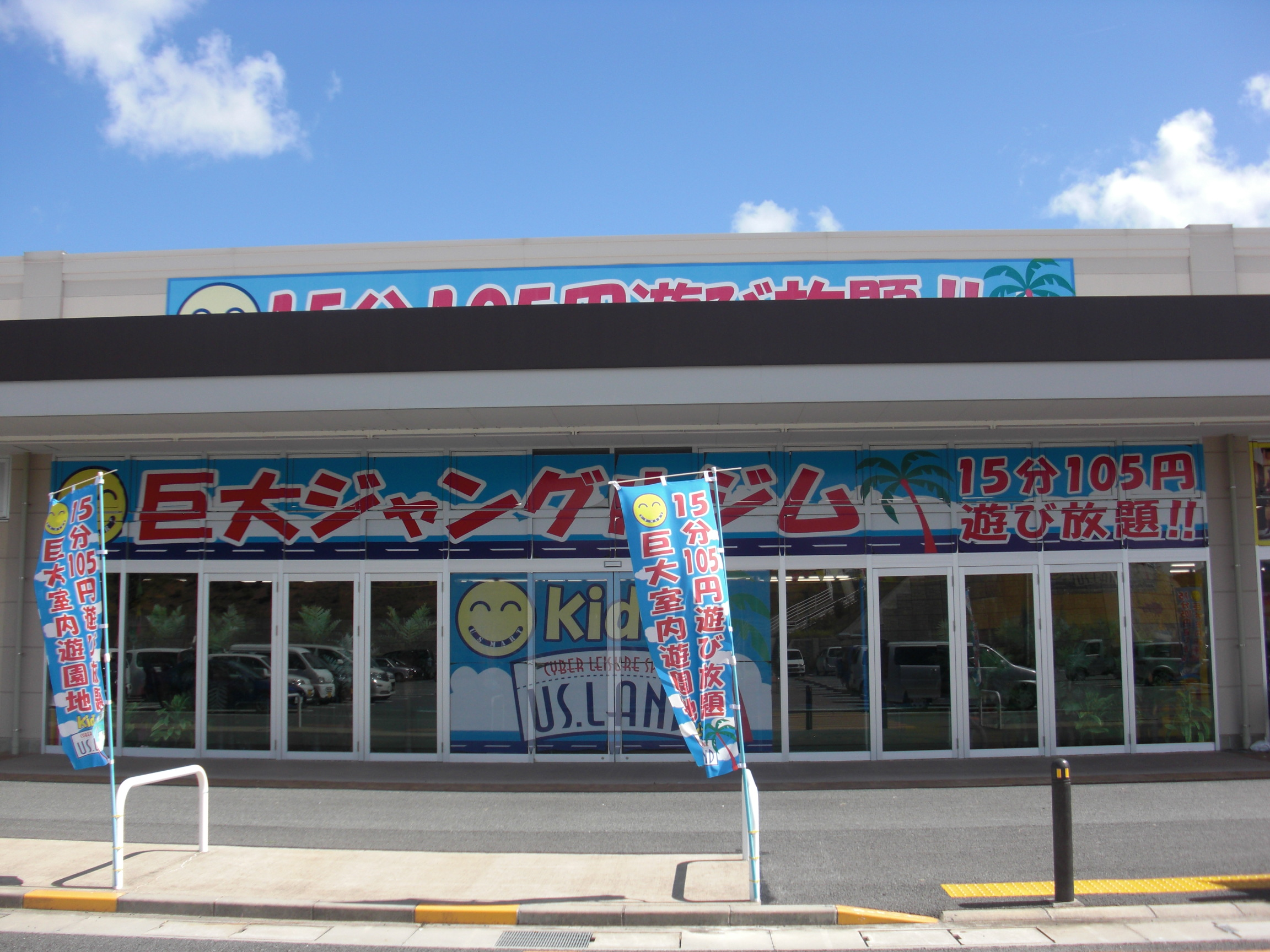 This is the Kids US Land Taki Crystal Town Shop, which is a game center, in Taki, Mie, Japan.